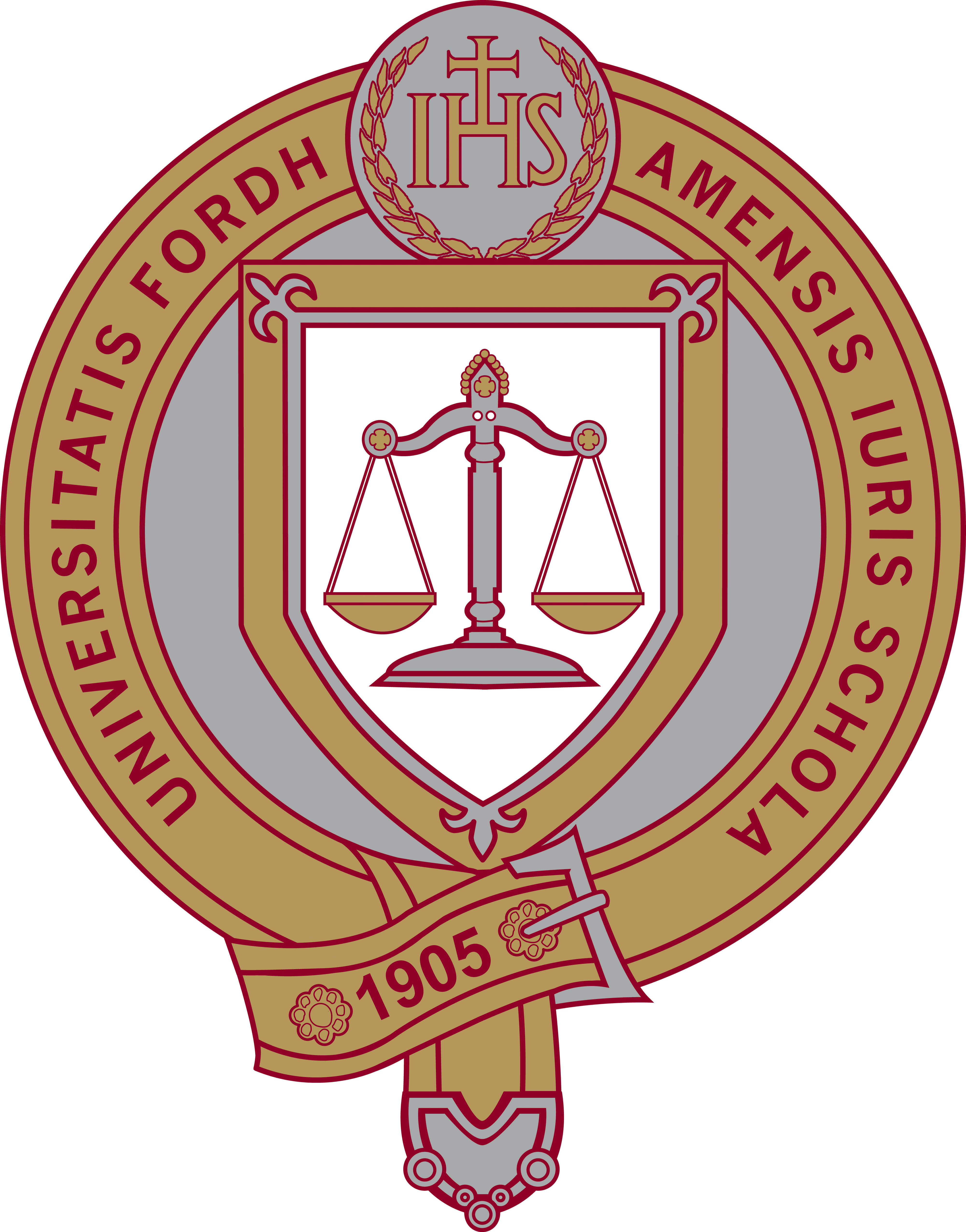 Fordham University School of Law seal features university and school name in Latin, the scales of justice, and the 1905 date of the school's founding.